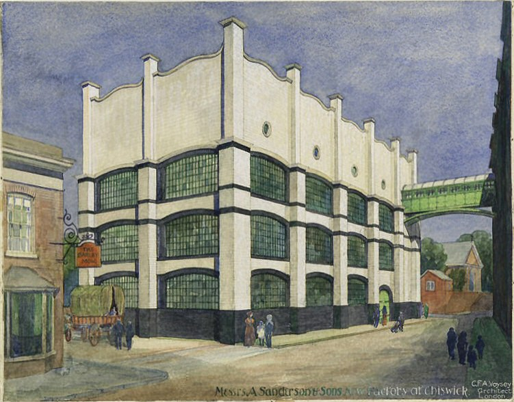 Voysey House Sandersons Building design by CFA Voysey 1902